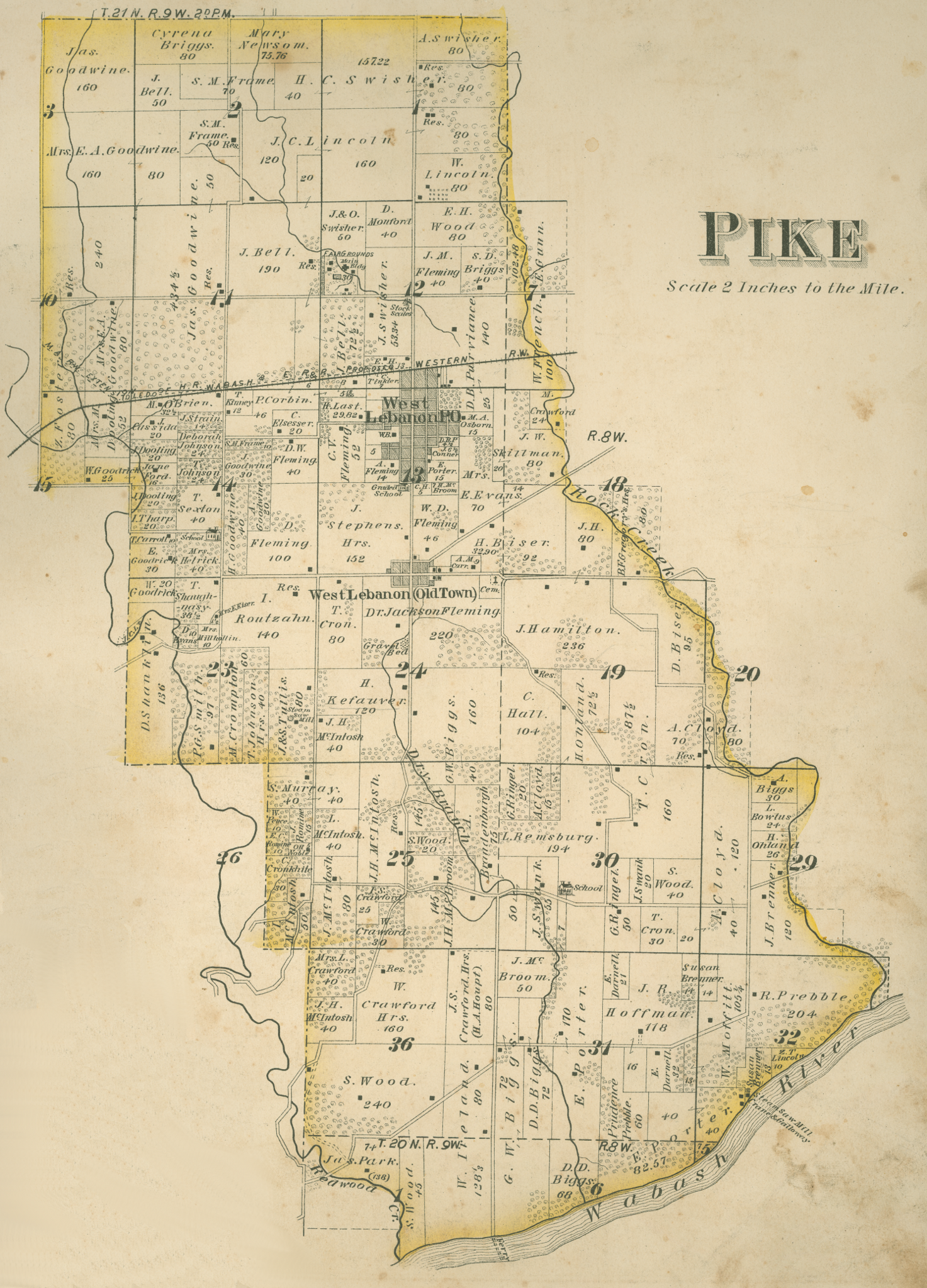 A map of Pike Township, Warren County, Indiana from an 1877 county atlas.